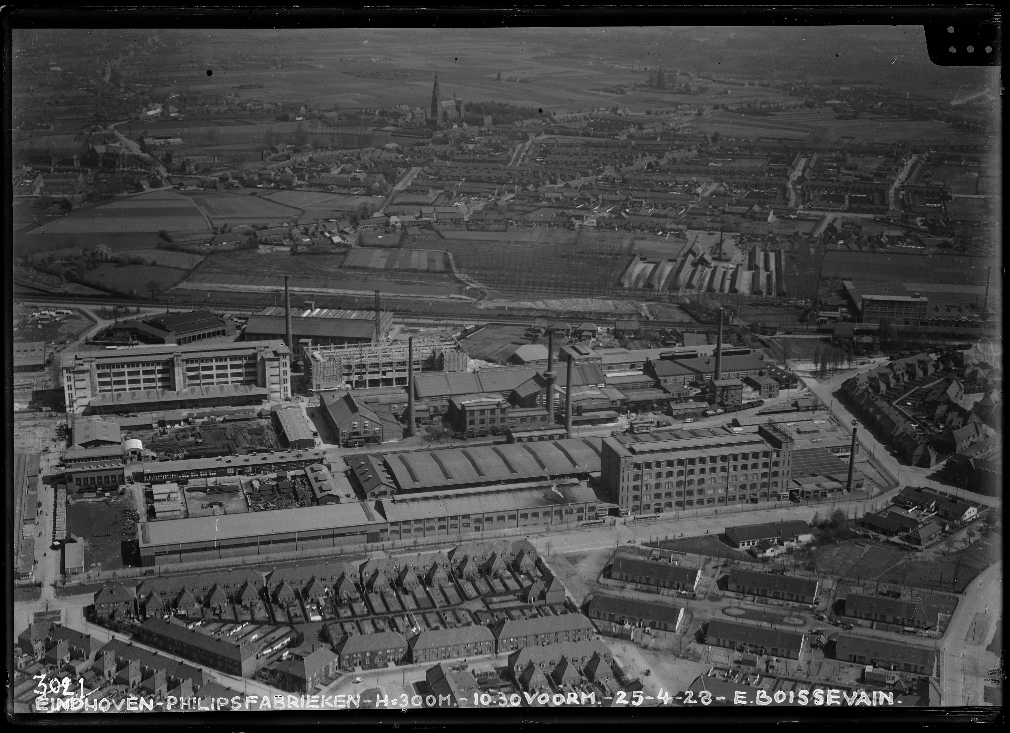 Aerial photograph of Eindhoven, The Netherlands